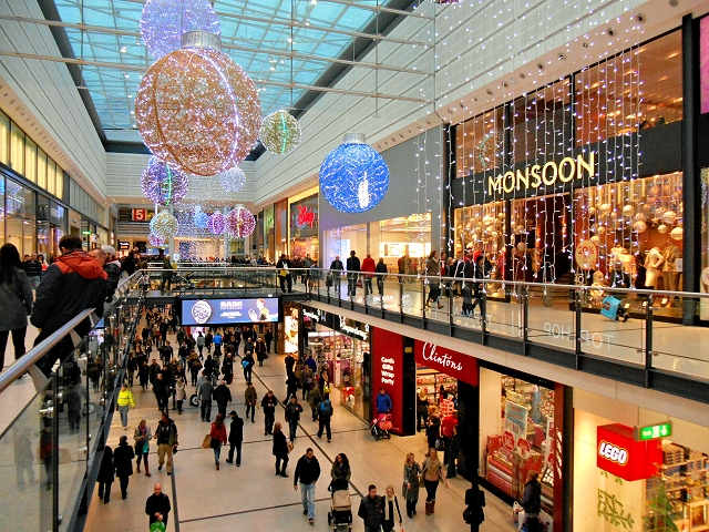 The most recent extension at Manchester Arndale, England